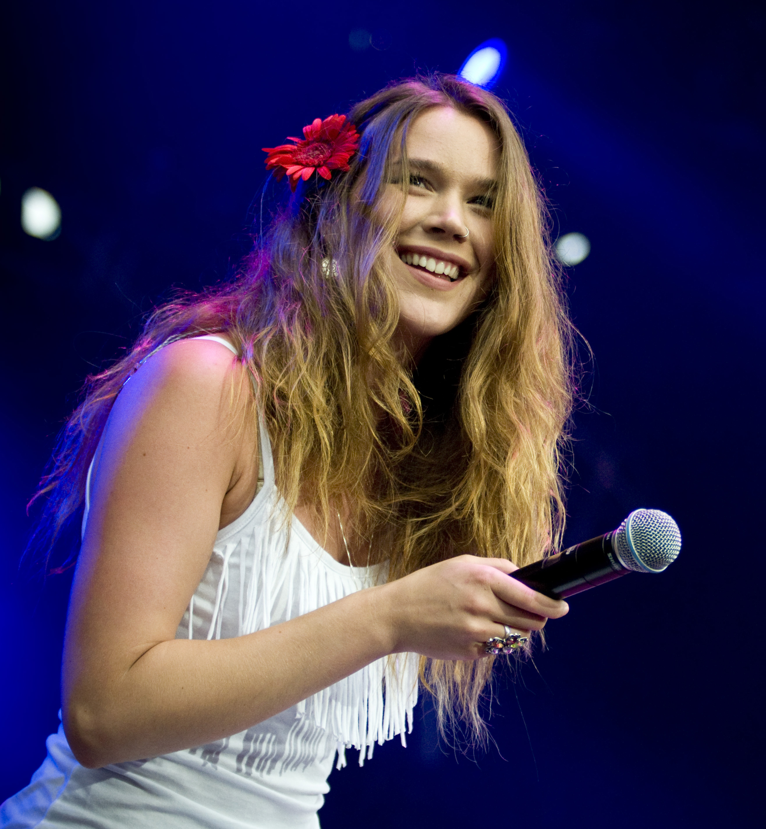 Joss Stone at Stockholm jazz fest, 19th July, 2009.